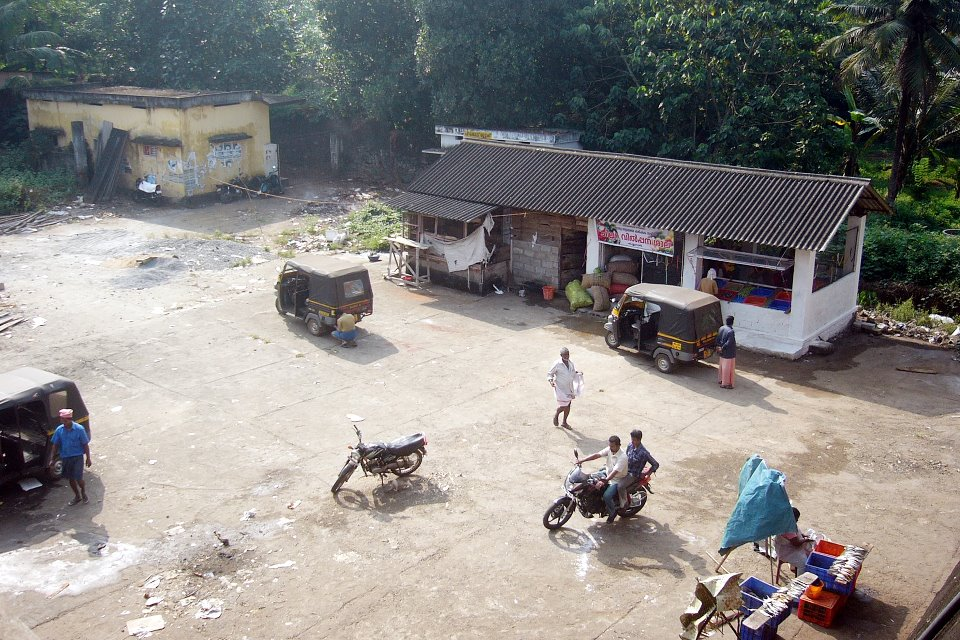 Picture of Koodal Market taken by Jinumon Samuel